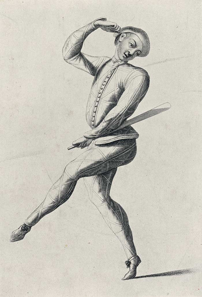 John Rich as Harlequin in an early British pantomime, c. 1720.